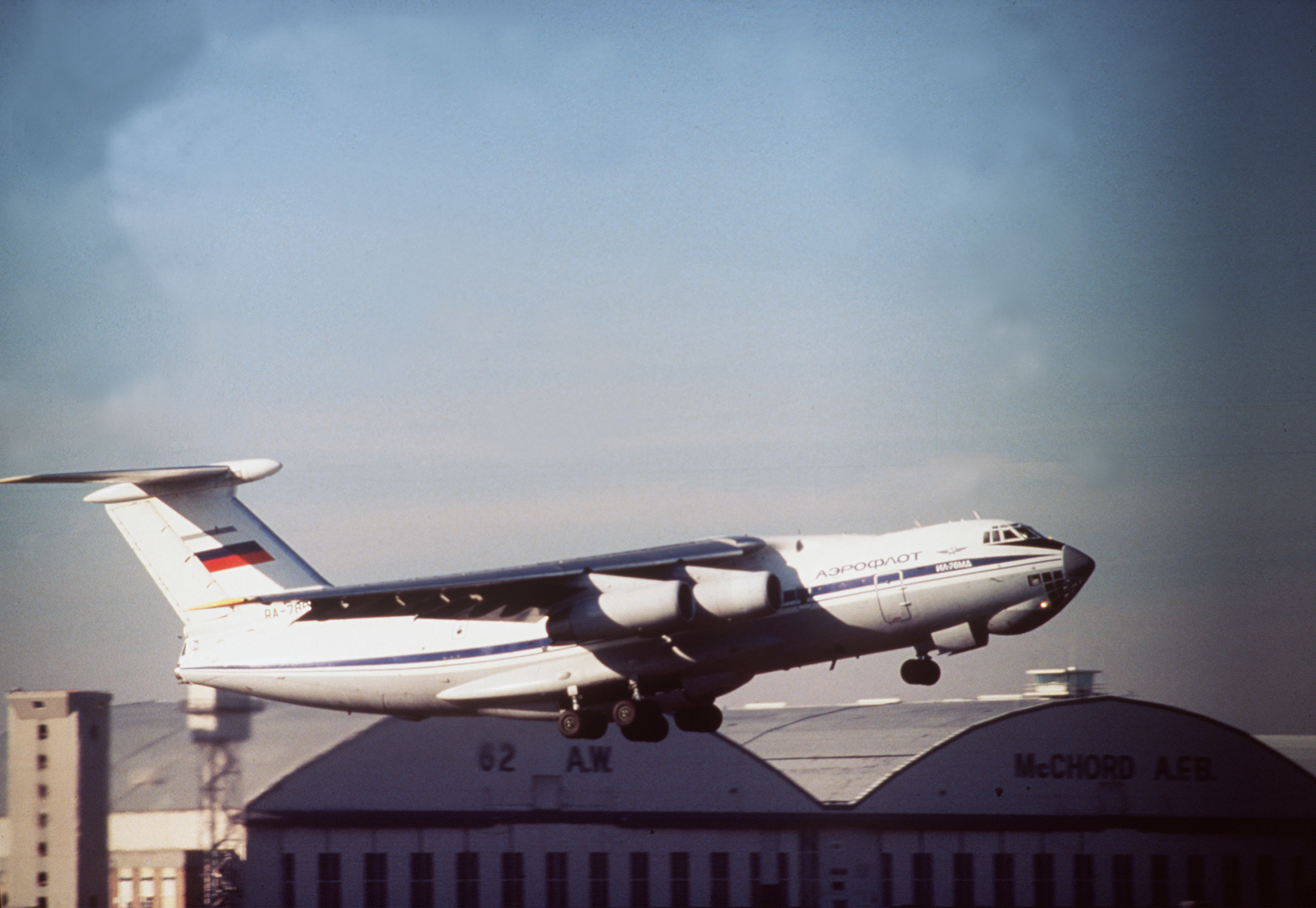 A Russian IL-76 from the Tver Military Transportation Air Base located near Moscow, Russia, takes off from McChord AFB, Wash., home of the 62nd Air Mobility Wing, for McConnell AFB, Kan., where air crews will rendezvous with Russian soldiers during Peacekeeper '95.